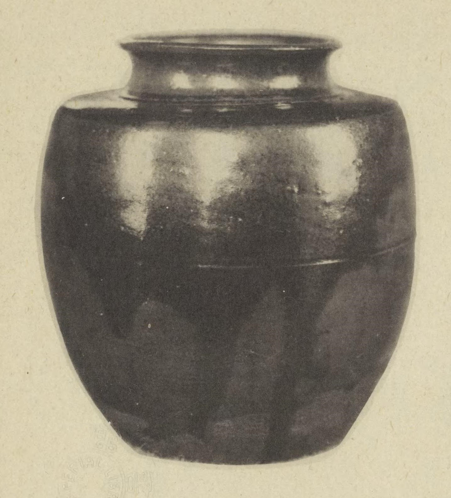 Black and white front view of Hatsuhana Katatsuki, Important Cultural Property of Japan. The collection of Tokugawa Memorial Foundation.